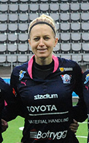 Linköpings FC team group in November 2014 before UWCL match against Zvezda 2005